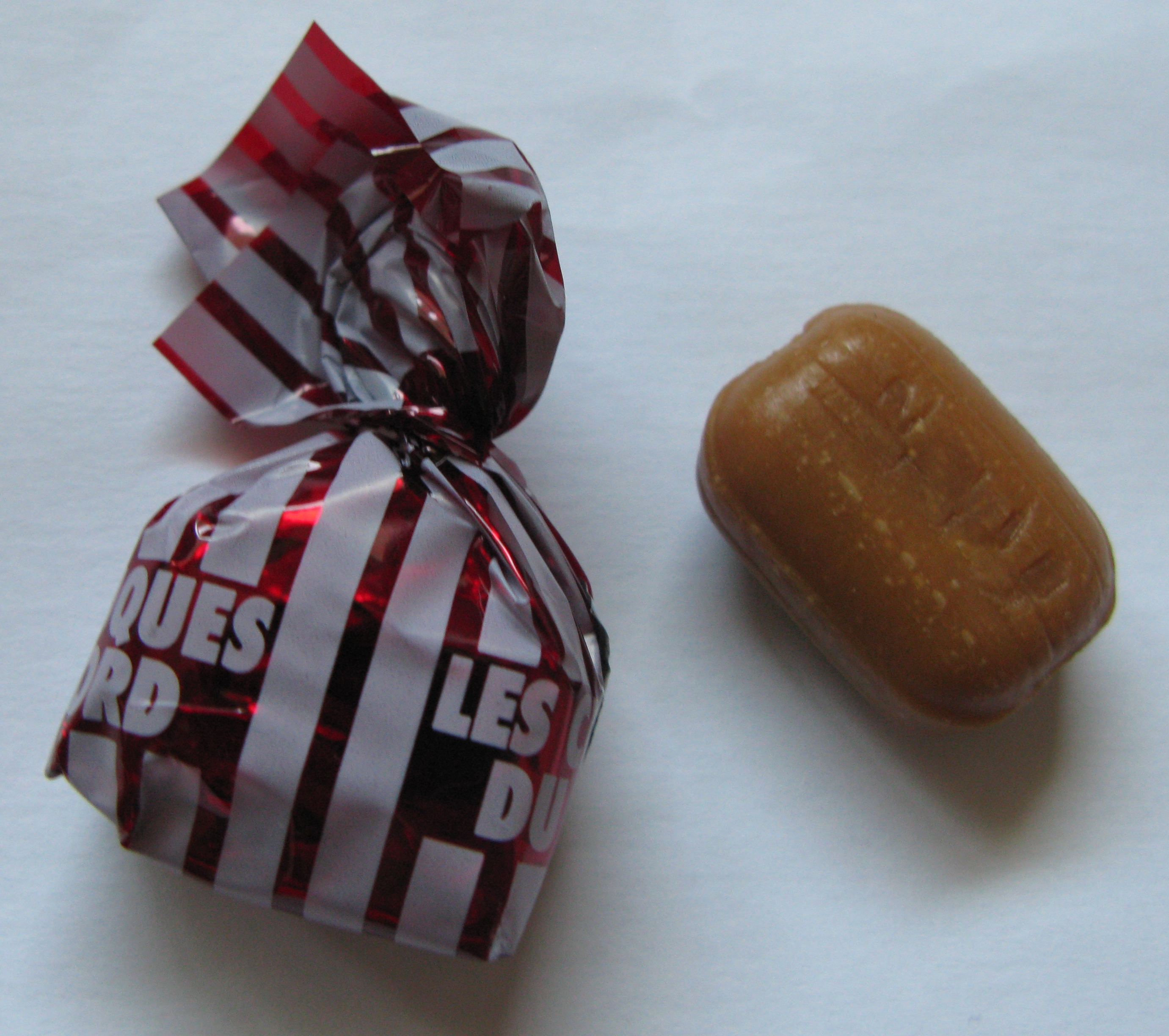 Sweets Chuques du Nord.